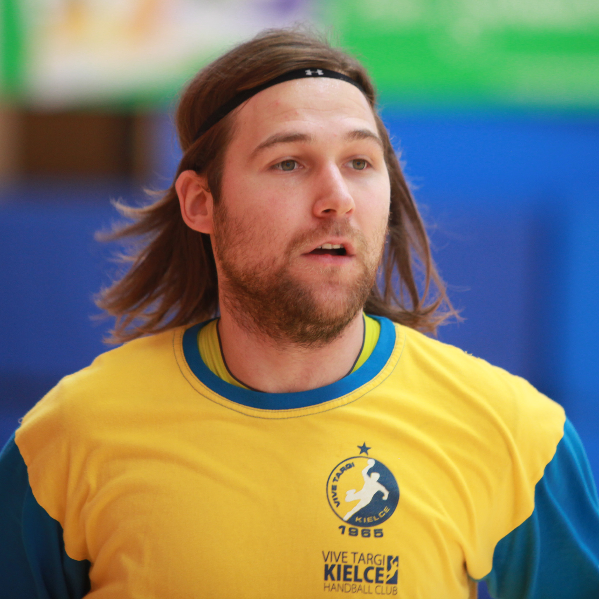 Ivan Čupić, on August 17th, 2012 in Ehingen (Germany), during the Sparkassen Cup (formerly known as Schlecker Cup).